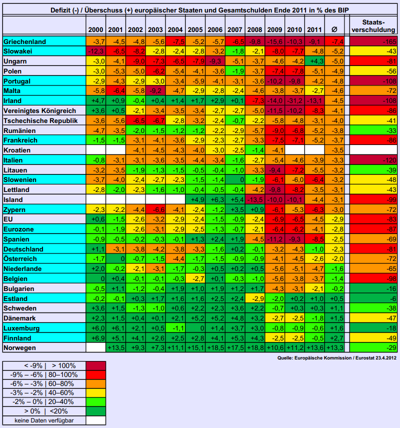 Debt-to-GDP ratio in Europe. Up to 2011. Older versions: see file history below.